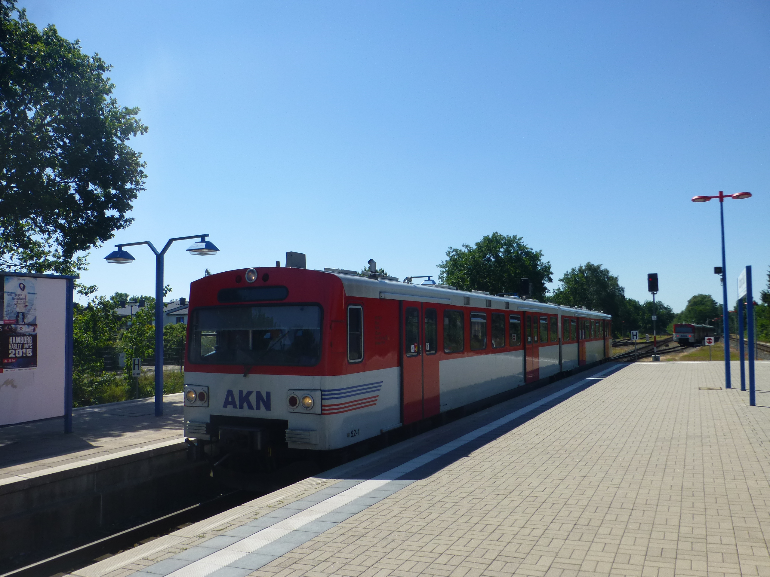 Bahnhof Ulzburg Süd on the AKN network in Hamburg. AKN line A2 arriving from Norderstedt Mitte.